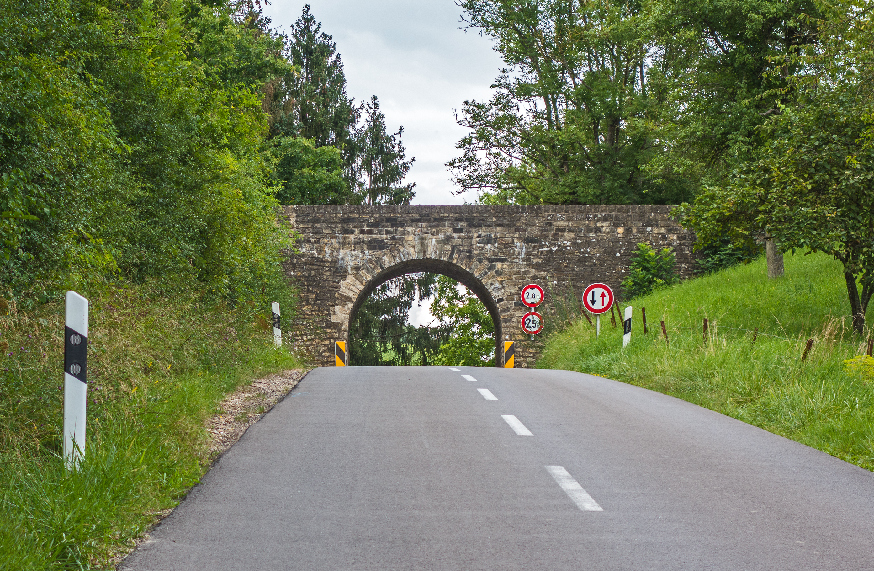 The "devil's bridge" between Dreiborn and Lenningen on the CR146, seen from the side of Lenningen